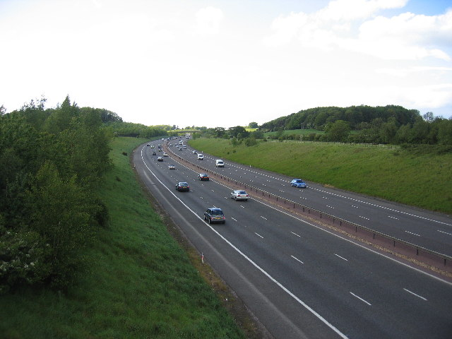 The M40 motorway in Warwickshire, England.